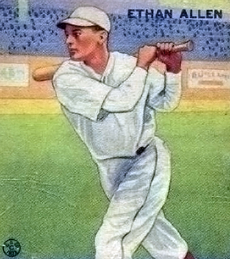 Ethan Allen's St. Louis Cardinals rookie card from 1933